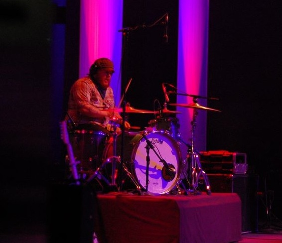 Leeland drummer Mike Smith in concert on March 21, 2007 in St. Joseph, Missouri.